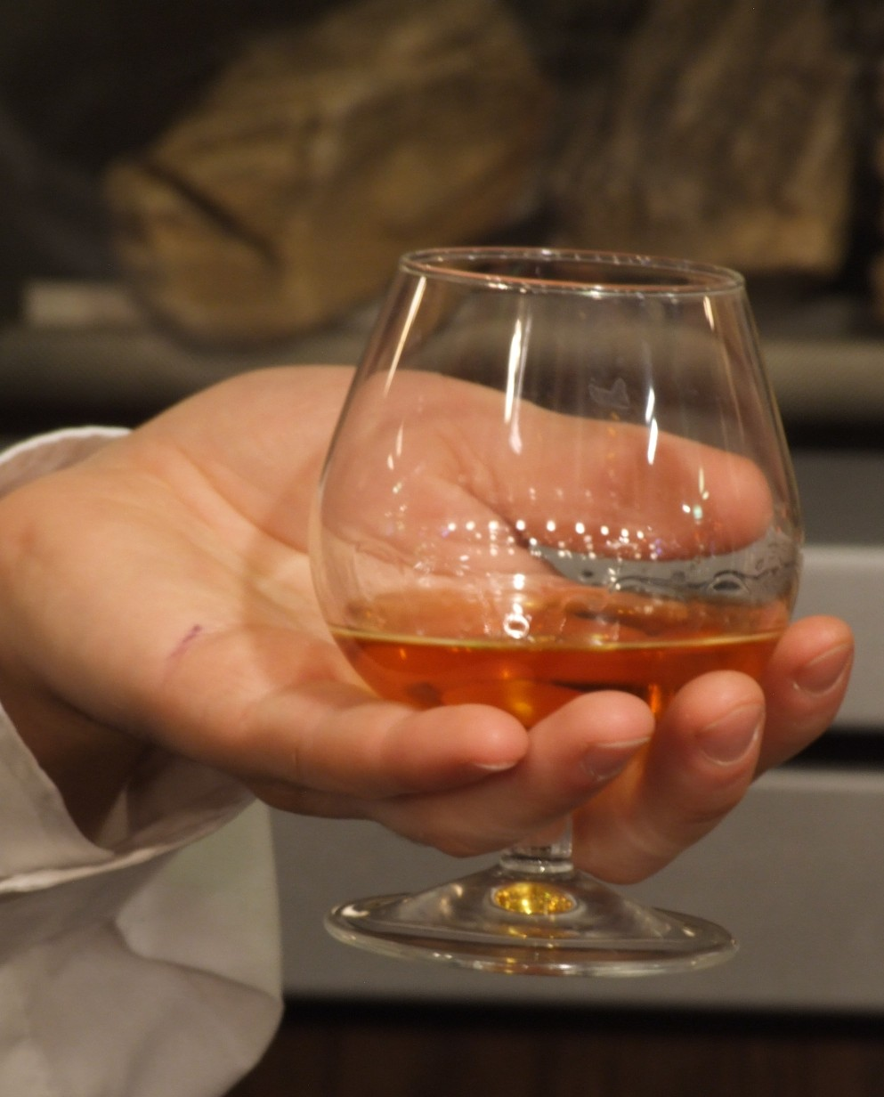 Cognac poured into its usual stemware